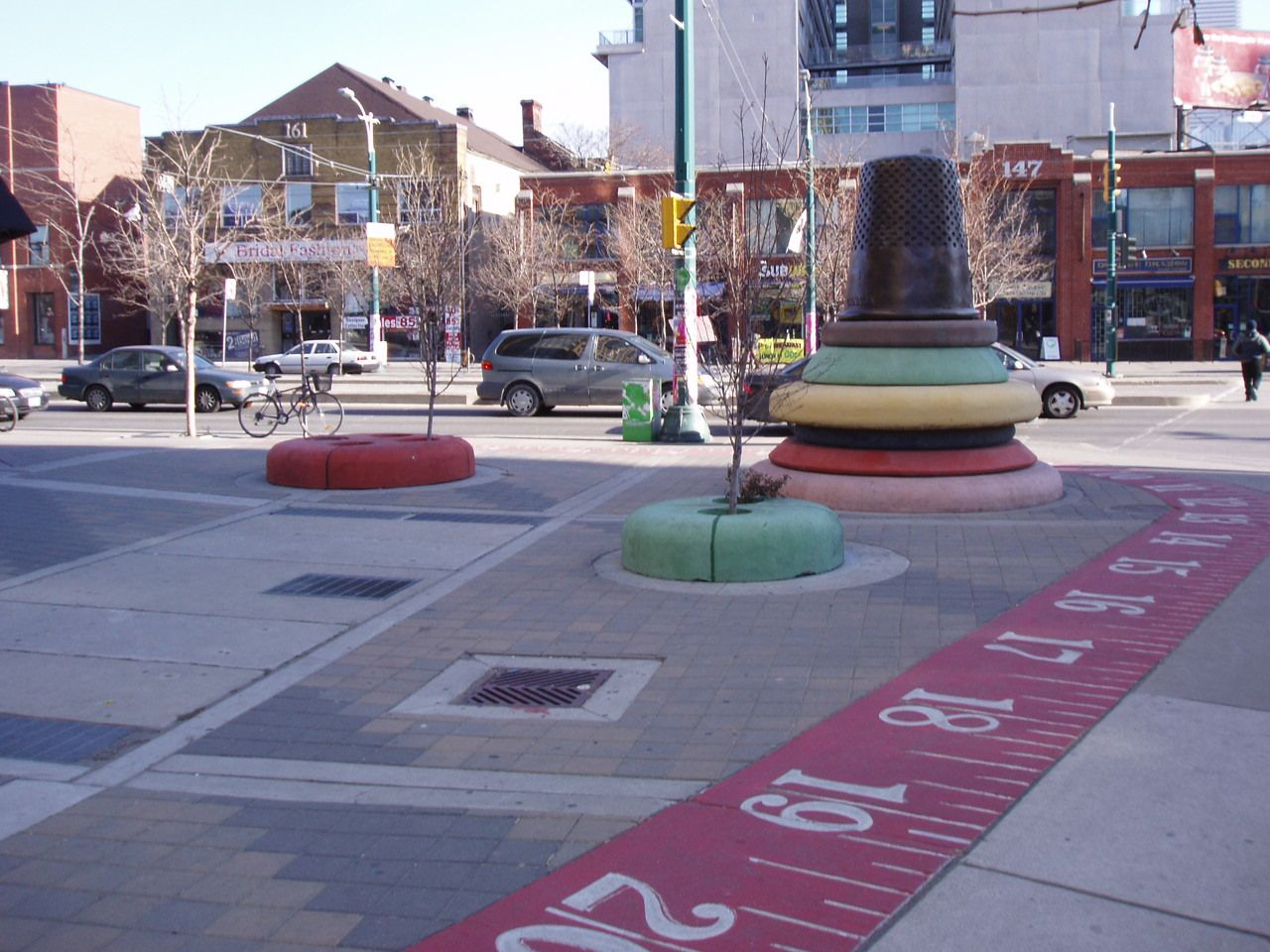 Artwork depicting a thimble, buttons and a measuring tape at the corner of Spadina Avenue and Richmond Street West in Toronto's Fashion District.